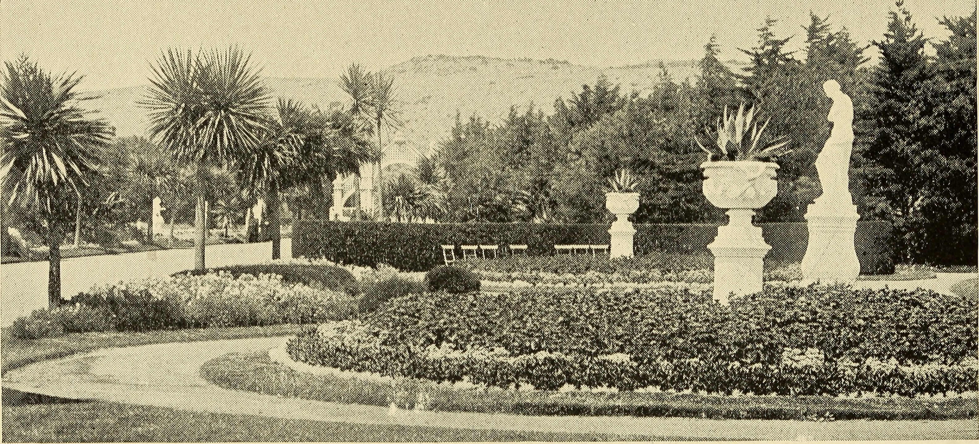 Title: Adolph Sutro Year: 1895 (1890s) Authors: Holmes, Eugenia Kellogg, Mrs. (from old catalog) Subjects: Sutro, Adolph, 1830-1898 Publisher: San Francisco, Press of San Francisco photo-engraving co. Text Appearing Before Image: ENTRANCE SUTRO HEIGHTS Text Appearing After Image: their admittance thereto, and their respect for theprivilege. But Mr. Sutro does not, in his lofty eyrie, on thecliffs crest, surrender himself to the exclusivedelights of entertainment. Much of his well-earned leisure has long beendevoted to the construction of a monument moreenduring than any possible triumph of marble orbronze, museum, tunnel, grove or garden. This is the Sutro Library, conceded by men ofthe highest scholarship to be one of the four greatlibraries of the United States. Three hundredthousand volumes have already been collected byagents stationed in the best Continental bookmarts, and additions are being constantly made. Among the rarest tomes and incunabula, may bementioned duplicates of the early printers art,from the famous Munich Library, four thousand innumber; folios of the classics from the monasteryof Boxheim and the Duke of Dahlberg, the Sun-derland Library and the confiscated monasteries ofBavaria. There are Mexican works, relating to the war ofindependence